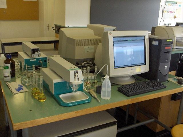 A Polarography Workplace with a Polarography-Unit from Metrohm